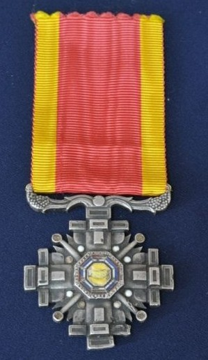 Order of the Pillars of the State, 4th class